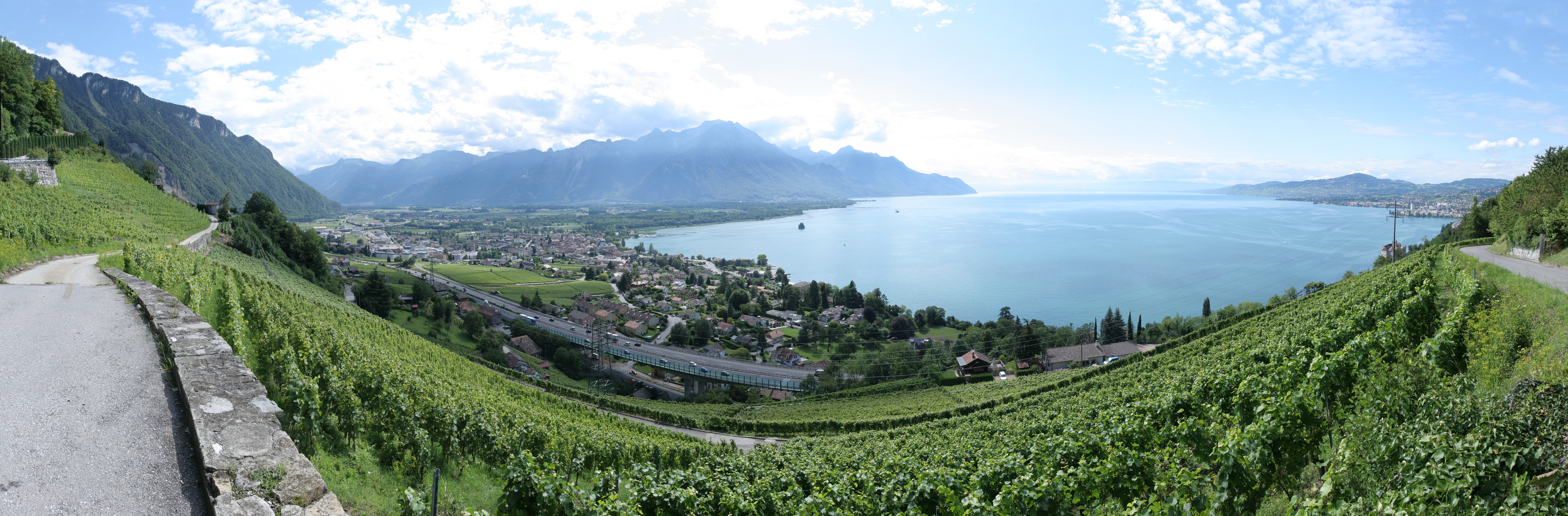 200° panorama view of Villeneuve VD, Lake Geneva, Chateau de Chillon and Montreux (from left to right). Made with Hugin by stitching 15 single images.